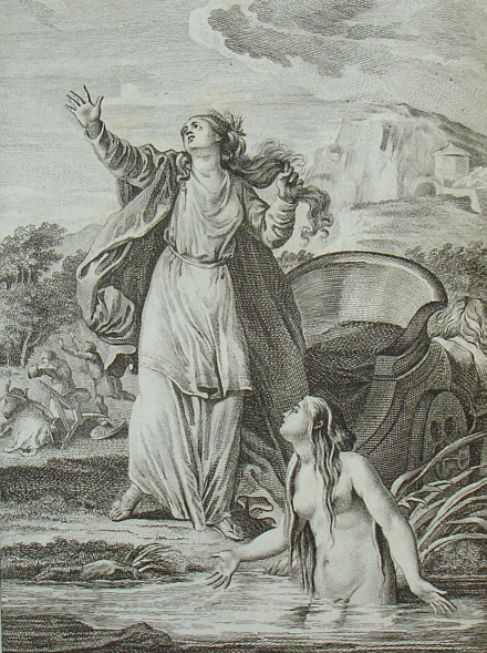 Ceres and Arethusa. Arethusa pleads for earth and mankind, which Ceres is cursing. In the background dying cattle and peasants. Engraving by Vincenz Grüner, 1791.